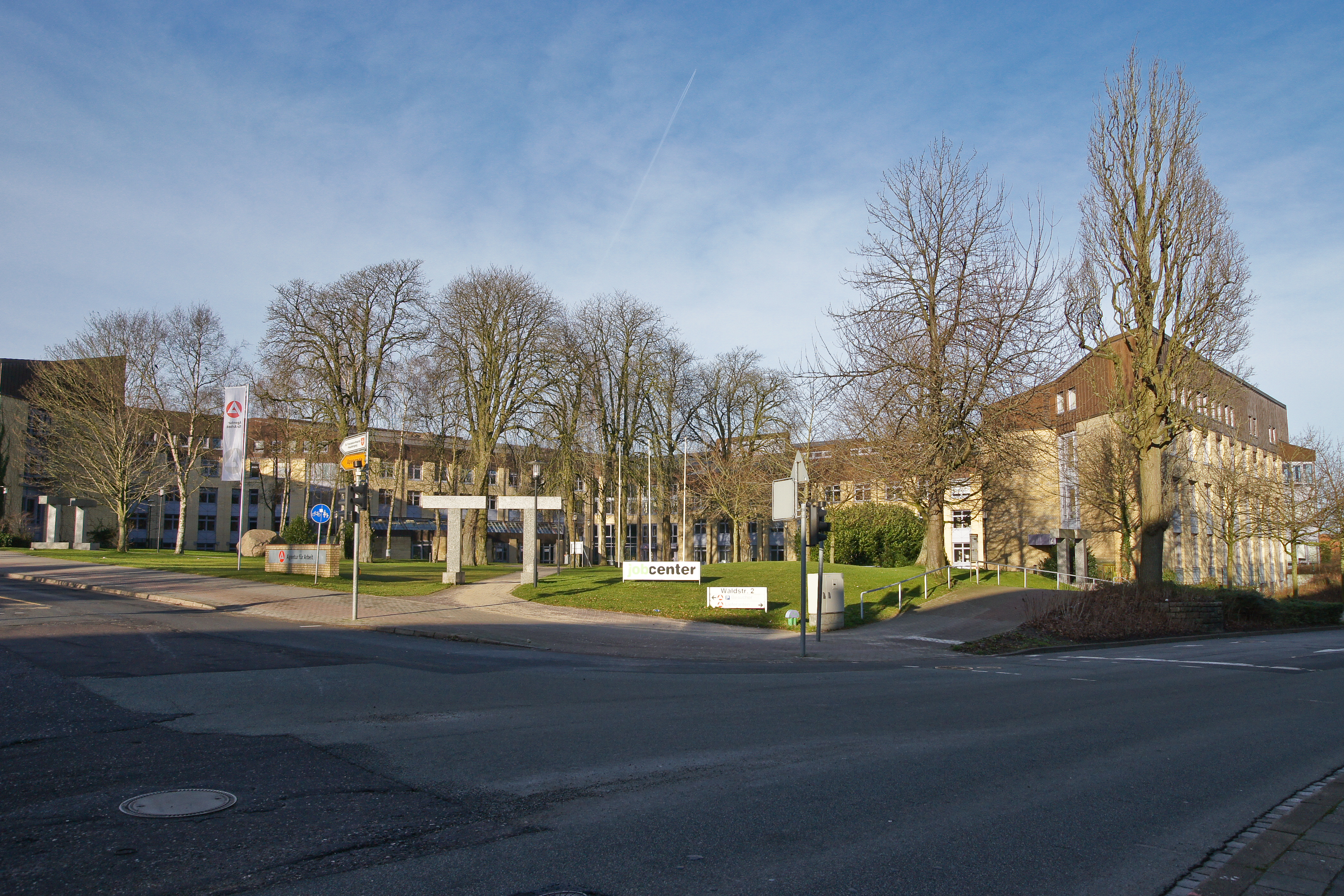 Between 1886 and 1991 the Duburg-Barracks was at this point.